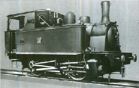 An 0-4-0 tank locomotive built by the Hohenzollern Locomotive Works, like those built for the Imperial Japanese Army in 1899 for use in Korea, which were later taken over by the Chosen Government Railway.